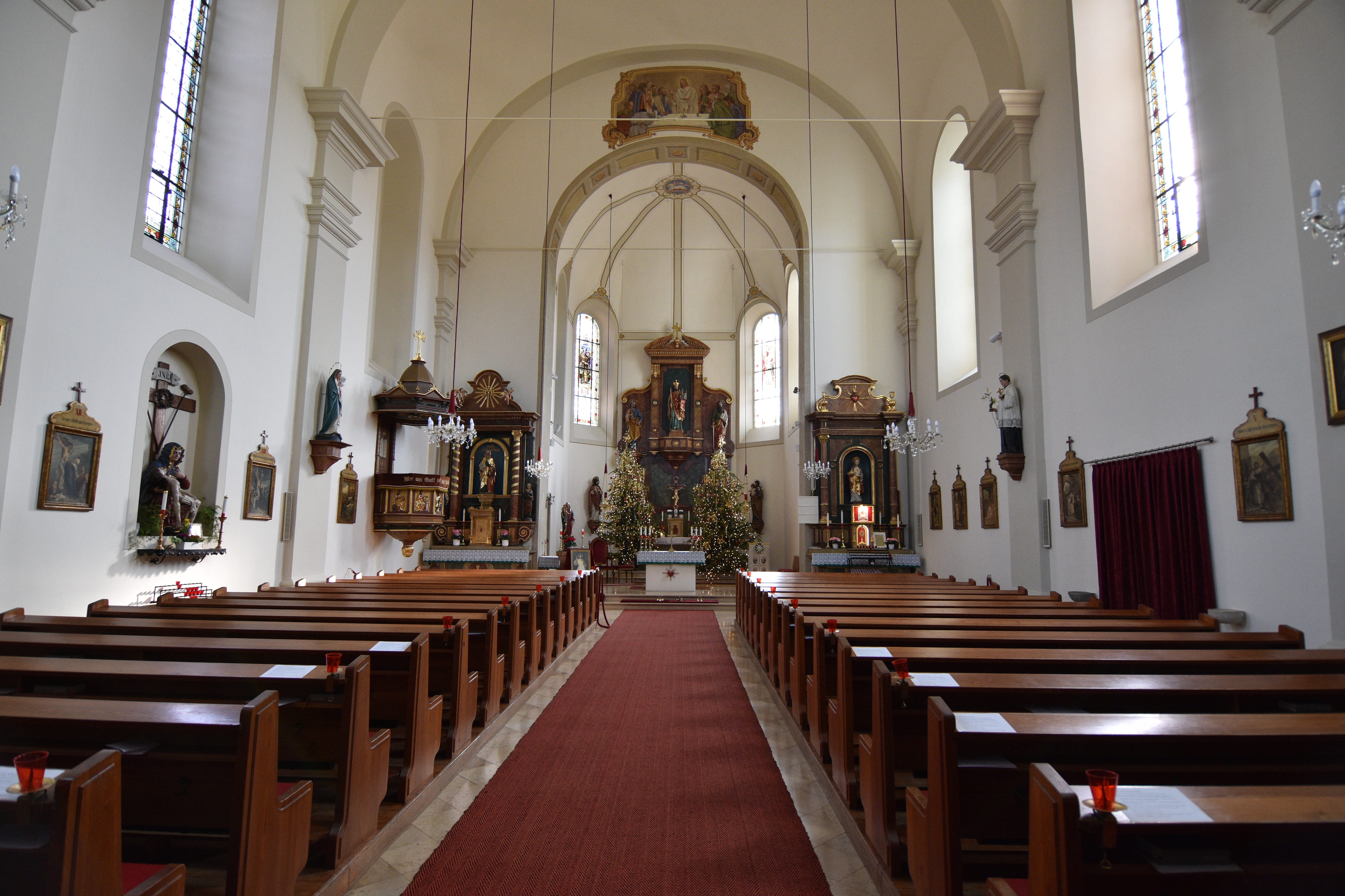 Church hl. Heinrich, Unterlamm - Interior